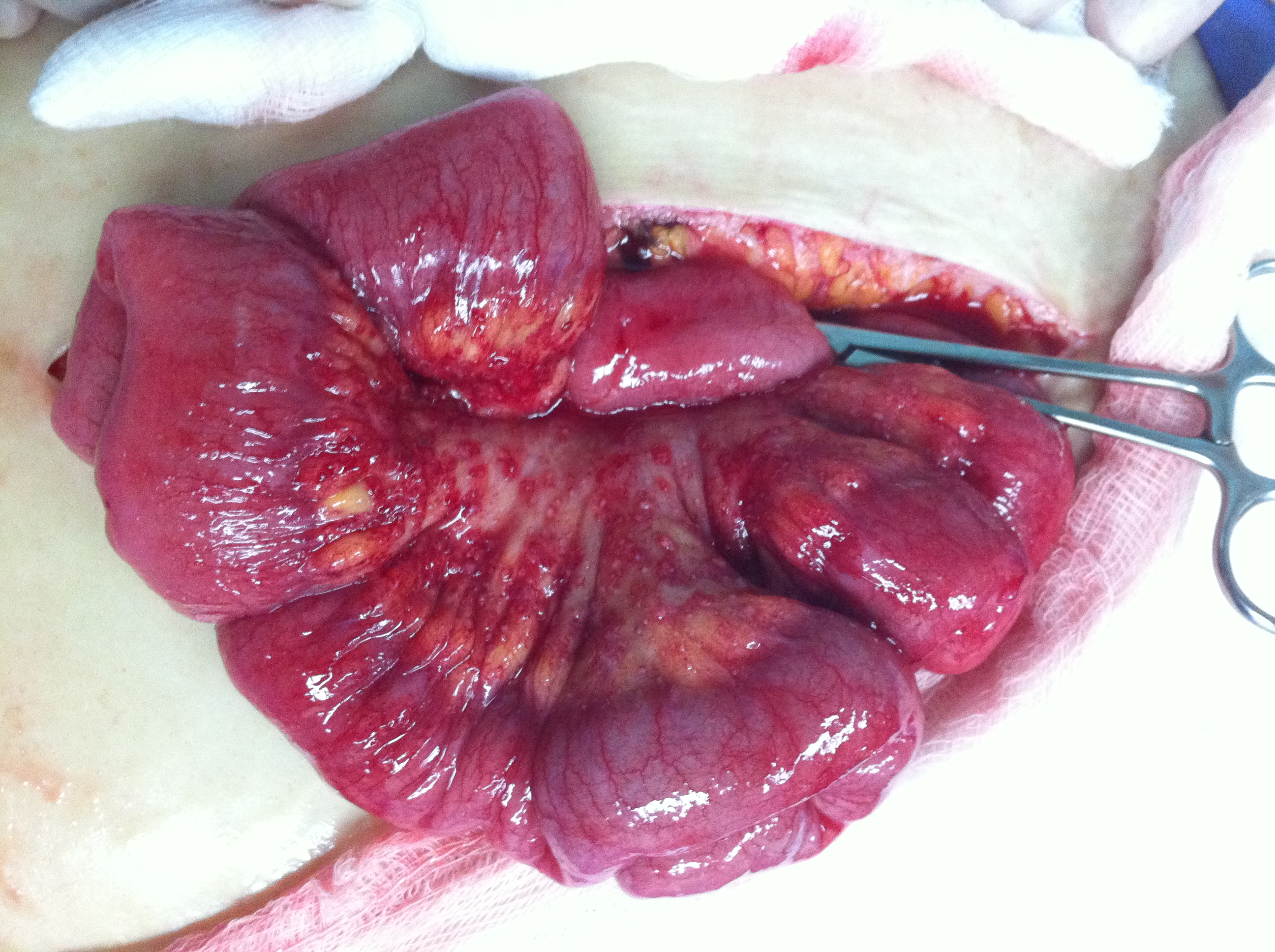 Ovarian Adenocarcinoma deposit in the mesentry of small bowel king Saud Medical City, Riyadh, Saudi Arabia 48 year old lady